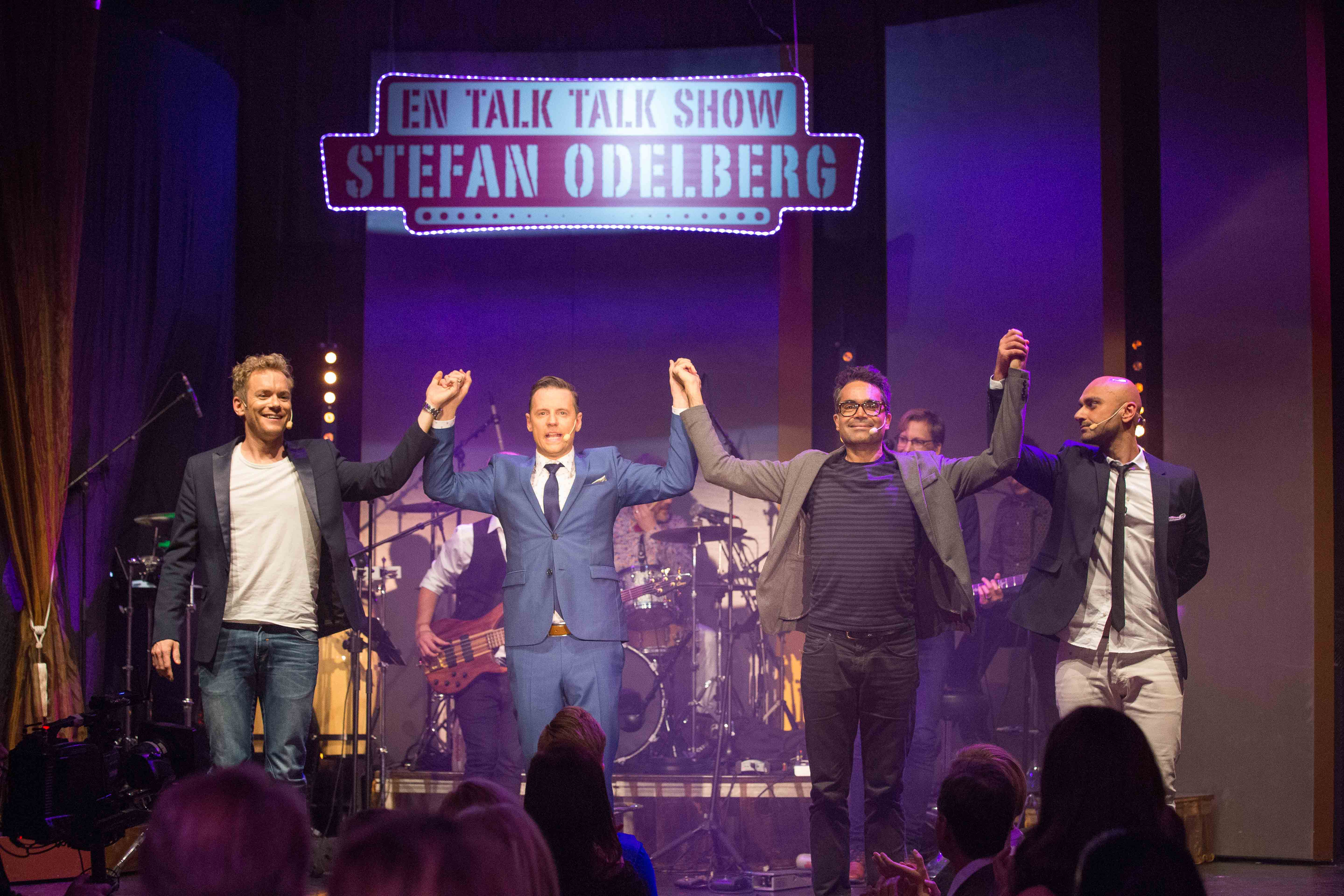 "En Talk Talk Show" with guests Peter Johansson and David Batra